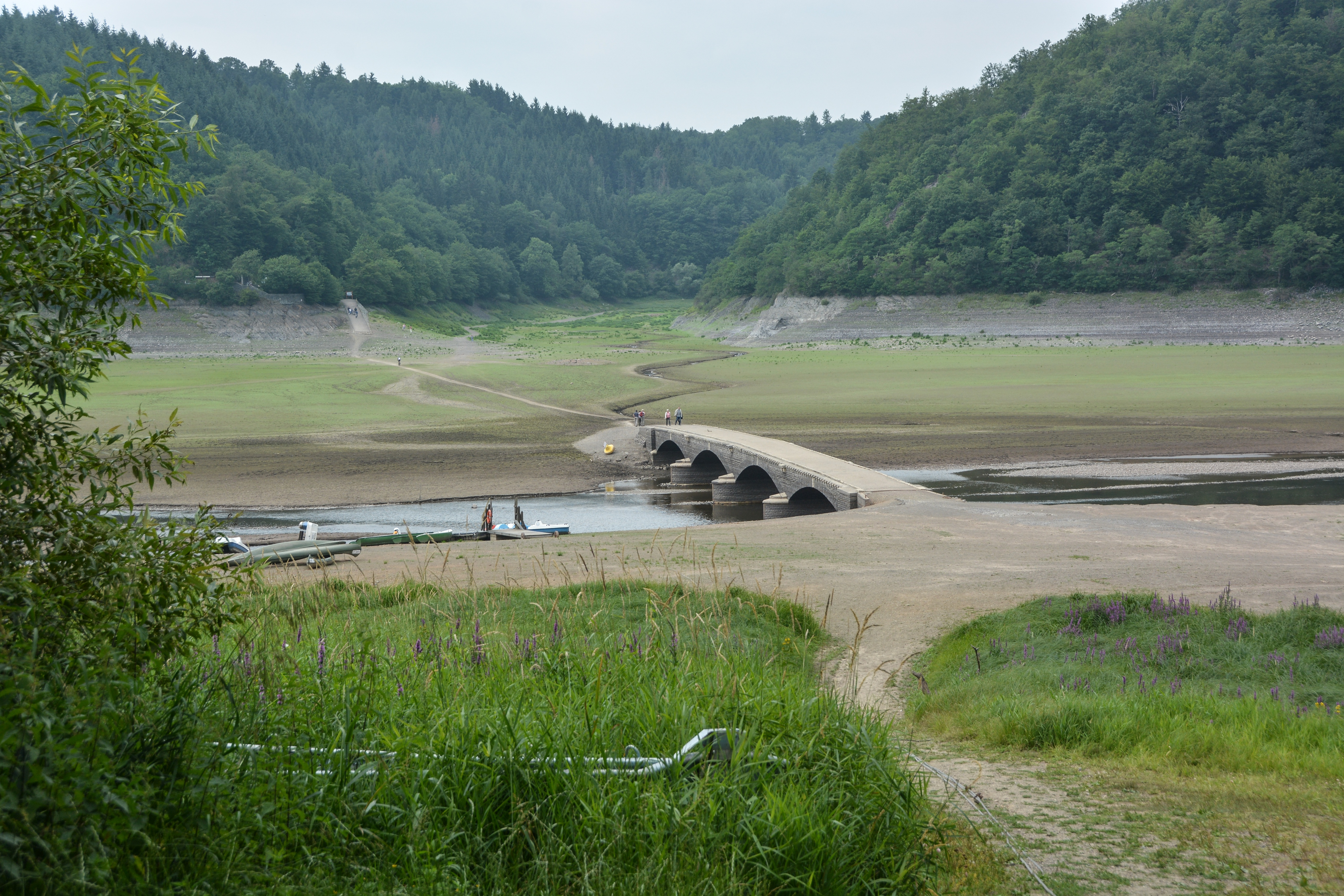 Bridge of Asel, inside Eder Lake, visible only in Summer at low water level.